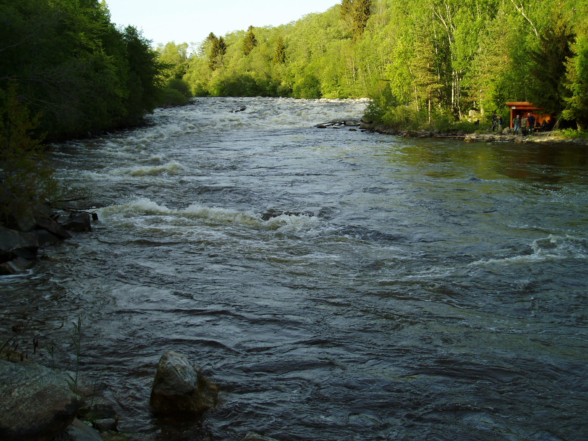 The river Ågårdselva in Norway.